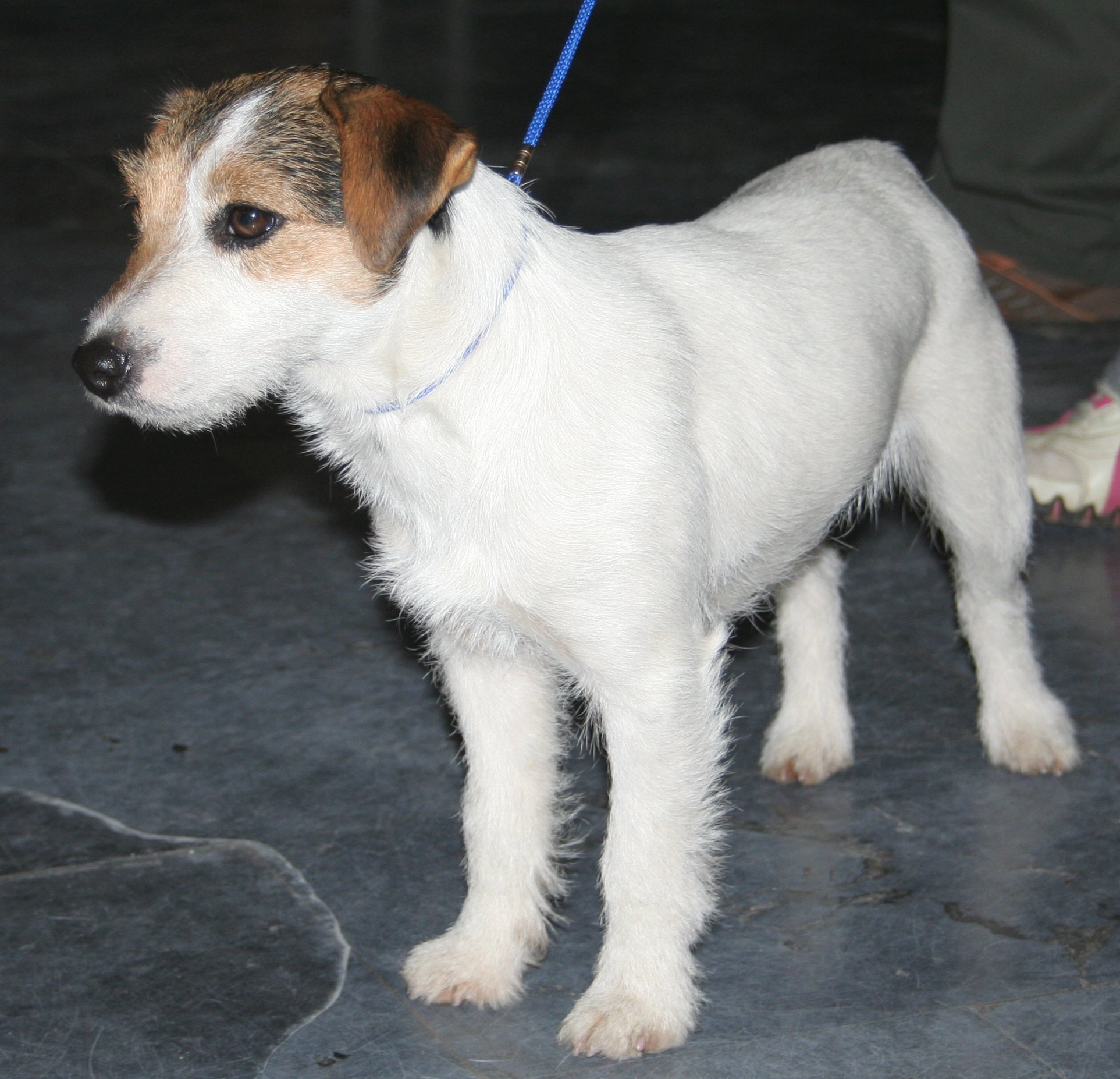 Jack Russell Terrier during dogs show in Katowice, Poland